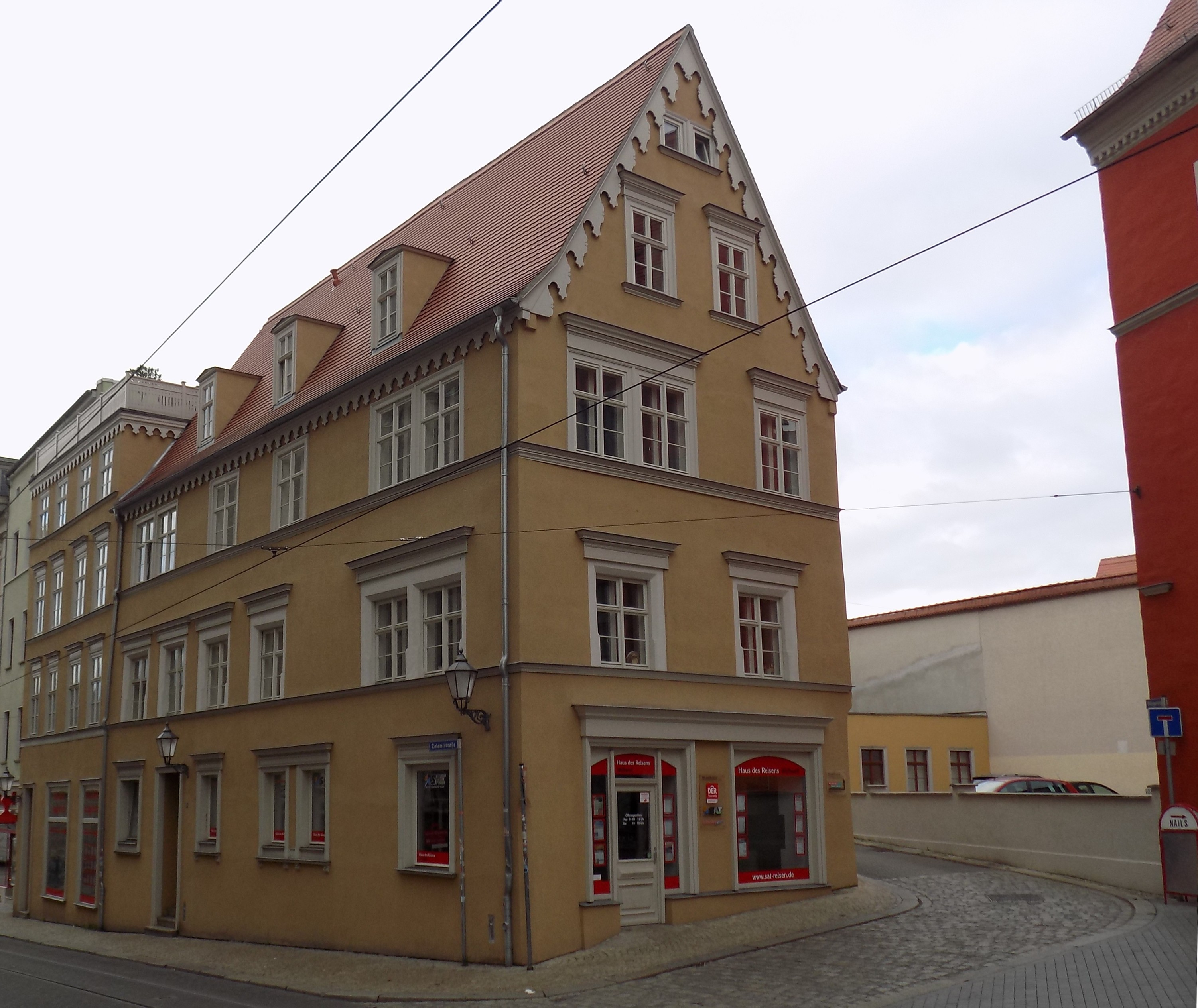 No. 9, Talamtstrasse in Halle/Saale (Saxony-Anhalt)